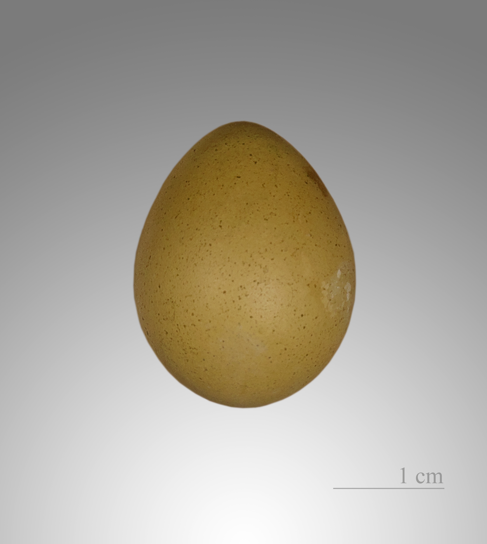 Egg of King Quail. Collection of Jacques Perrin de Brichambaut.